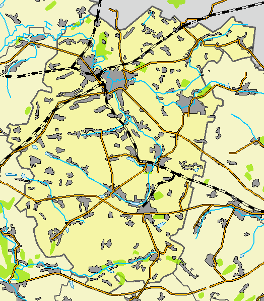 Bilopilskyi raion, Sumy oblast, Ukraine